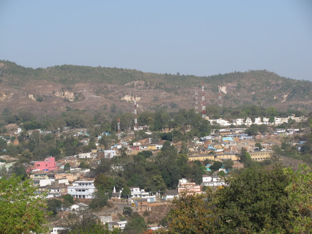 this is the beautiful place in chirimiri